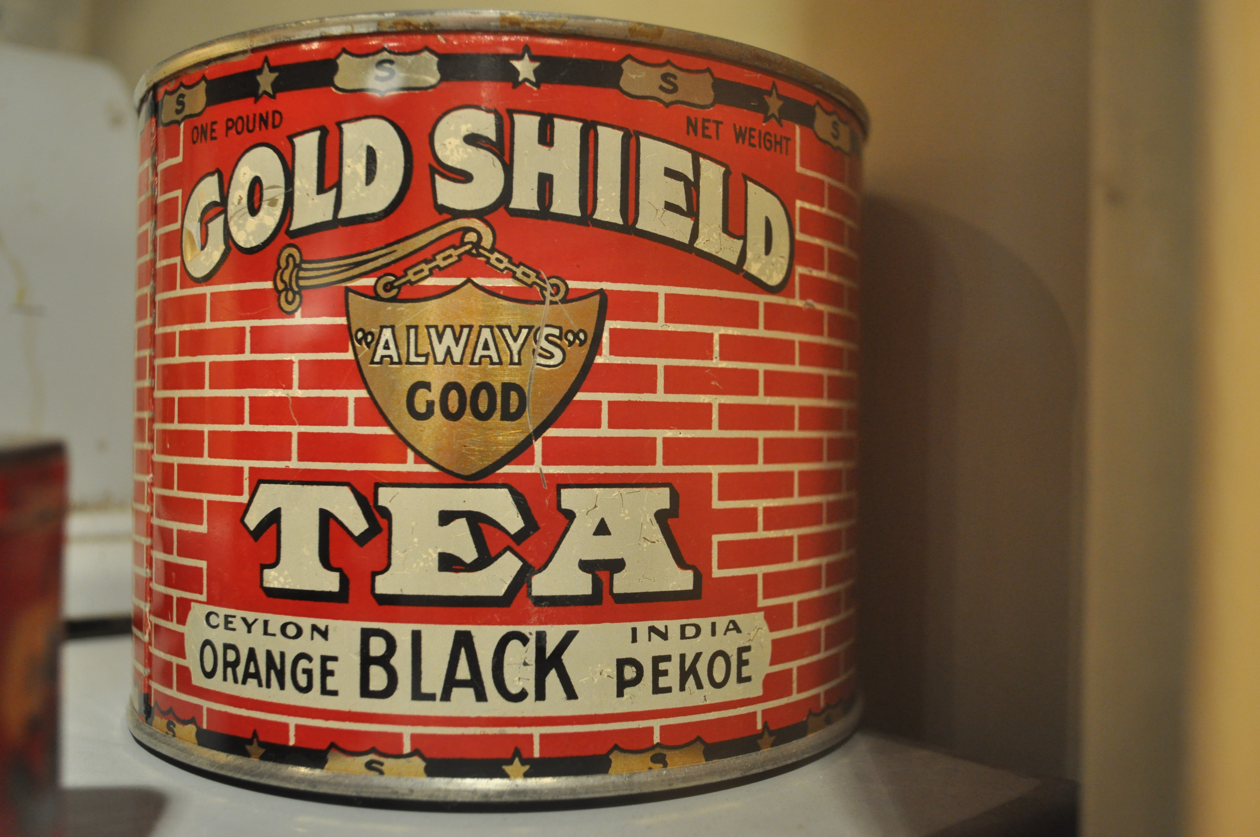 Gold Shield Tea, early to mid 20th century packaging, photographed at Edmonds Historical Museum, Edmonds, Washington, USA.